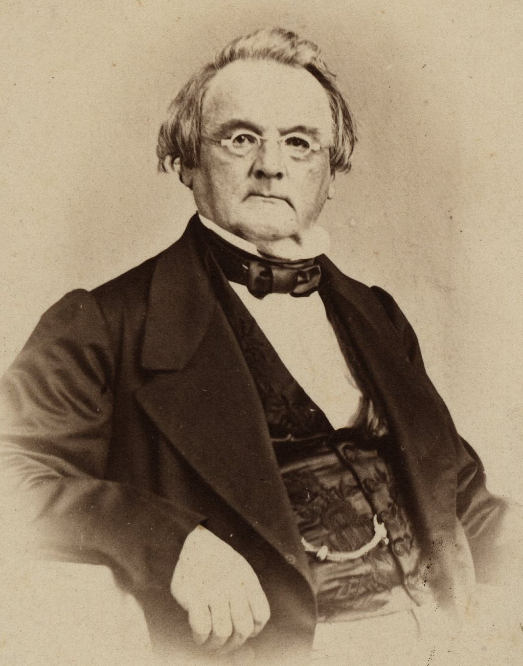 Wilhelm Matthias Naeff (1802–1881) was a Swiss politician. He was a member of the Swiss Federal Council from 1848 to 1875. He was one of the "Seven" (the seven politicians who were members of the first Swiss Federal Council [1848])